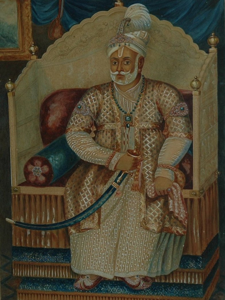 Dharma Raja of Travancore